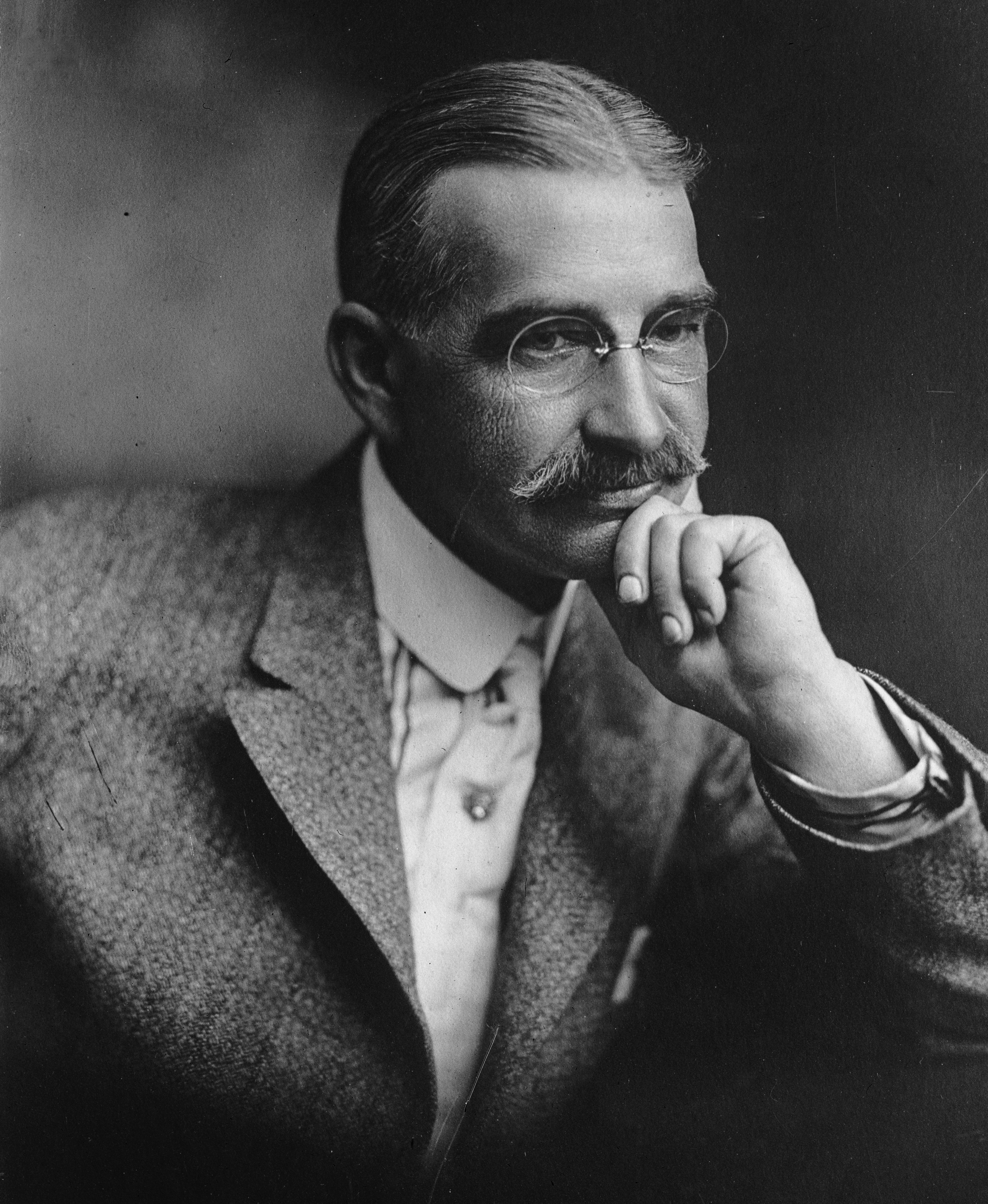 Copy of a portrait of L. Frank Baum, author of The Wonderful Wizard of Oz, circa 1911. Originally published in 1911 in the Los Angeles Times. Typed note on negative states "L. Frank Baum".